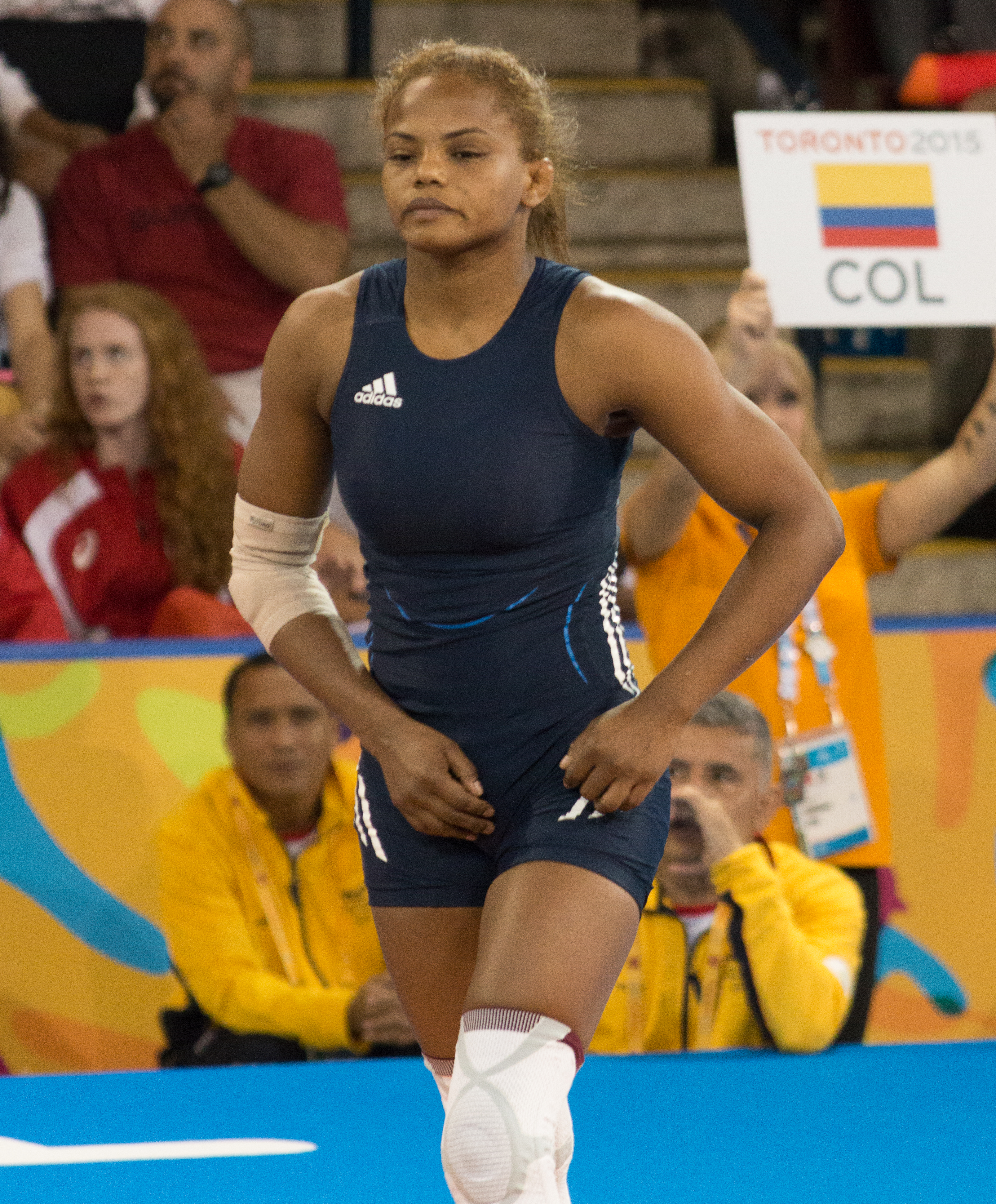 Jackeline Rentería entering the ring prior to her bronze medal match at the Pan Am 2015